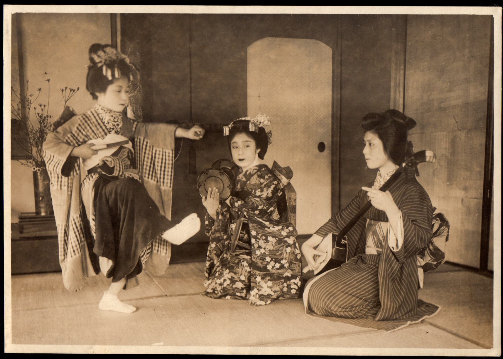 A woman (probably a geisha) is teaching two apprentices music (ko-tsuzumi) and dance.